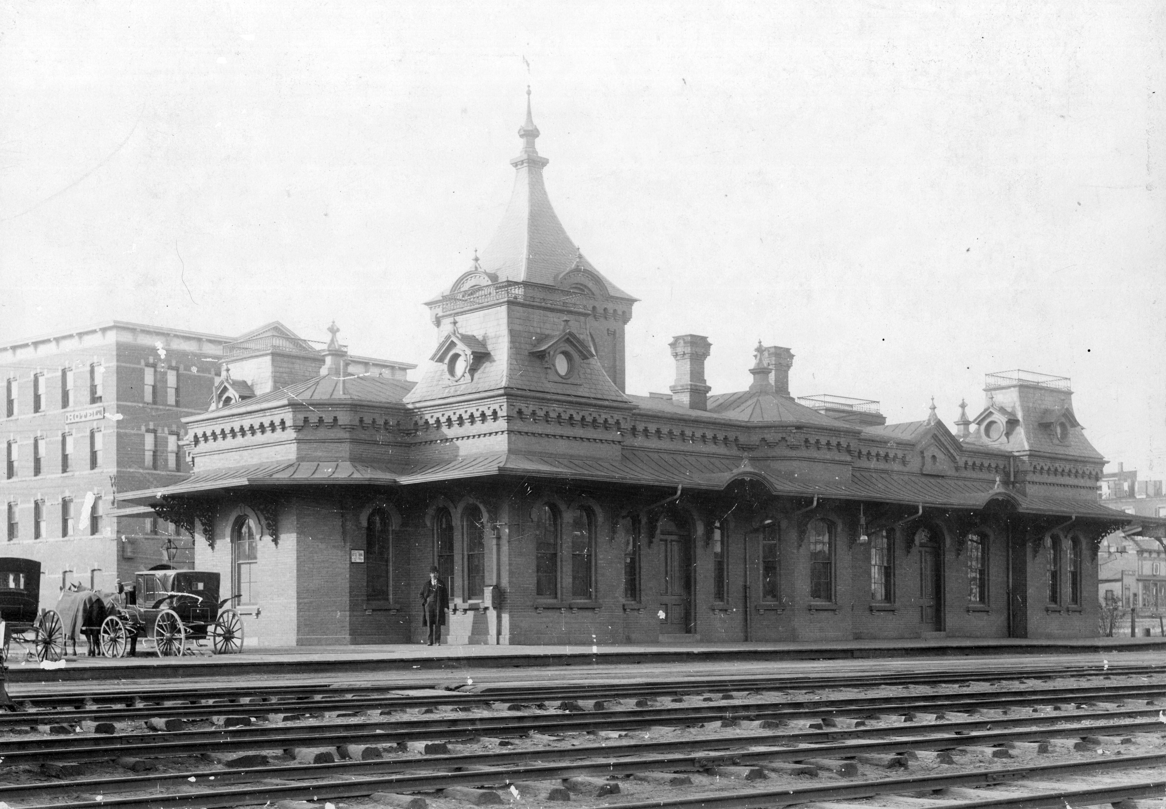 Image of the former Connecticut River Railroad depot in Northampton, Massachusetts.